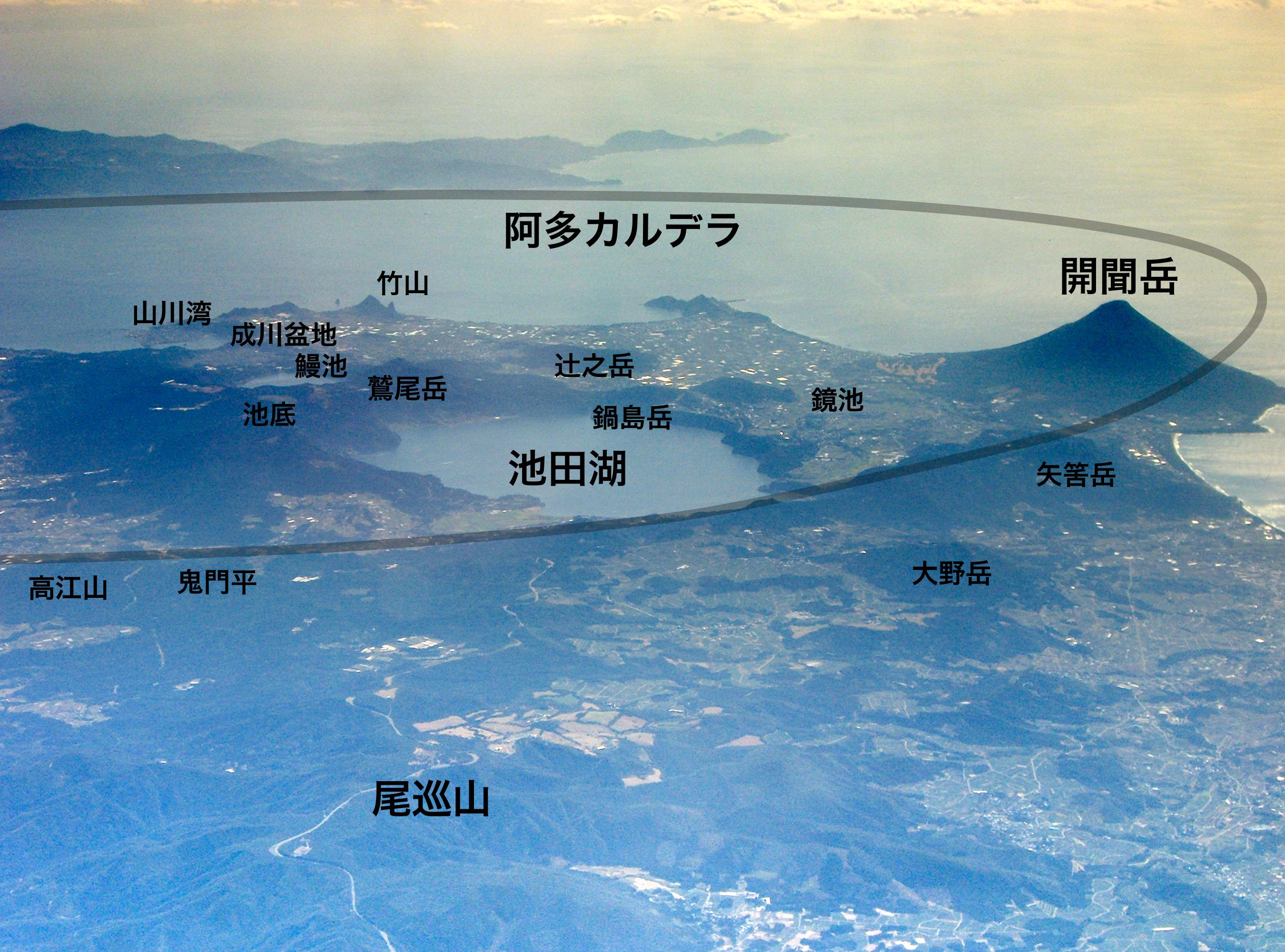 Ibusuki Volcanoes of Kagoshima, Japan with explanations./ 鹿児島県の指宿火山群(南薩火山群)。上空より撮影。解説あり。